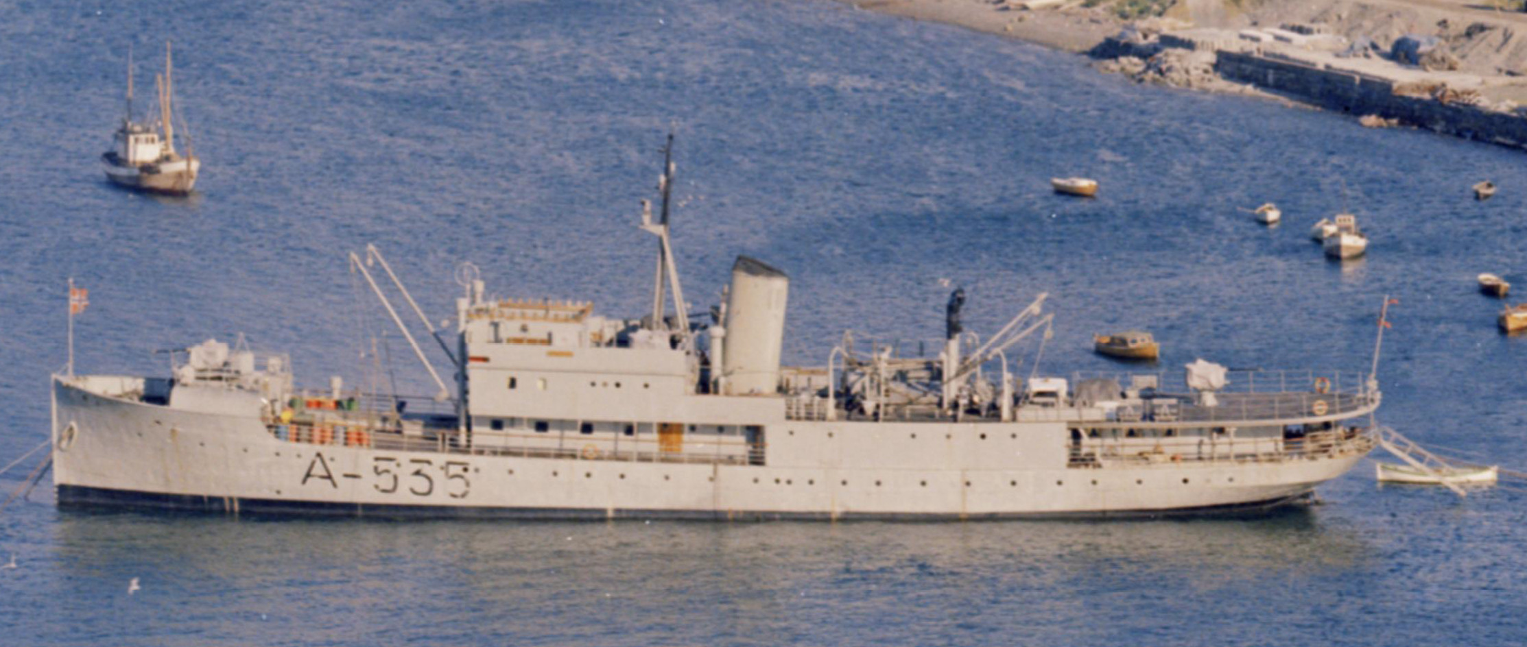 Norwegian navy ship Valkyrien. She was built in 1912 as steamship Polarlys.